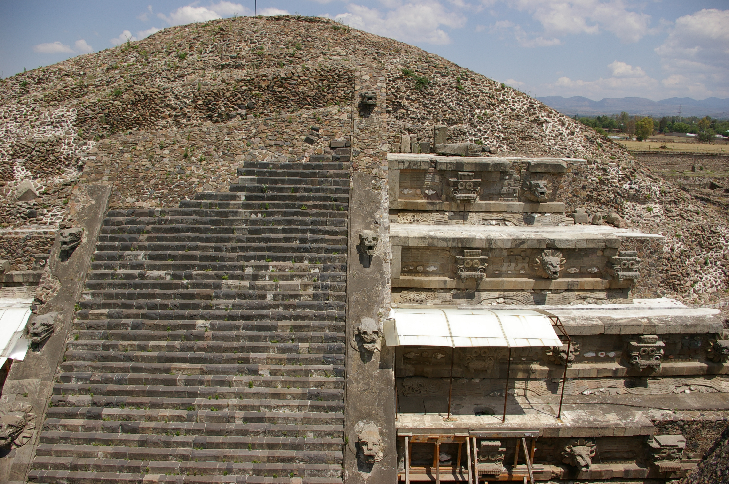 Teotihuacan - Temple of the Feathered Serpent - view from the top of the Adosada platform